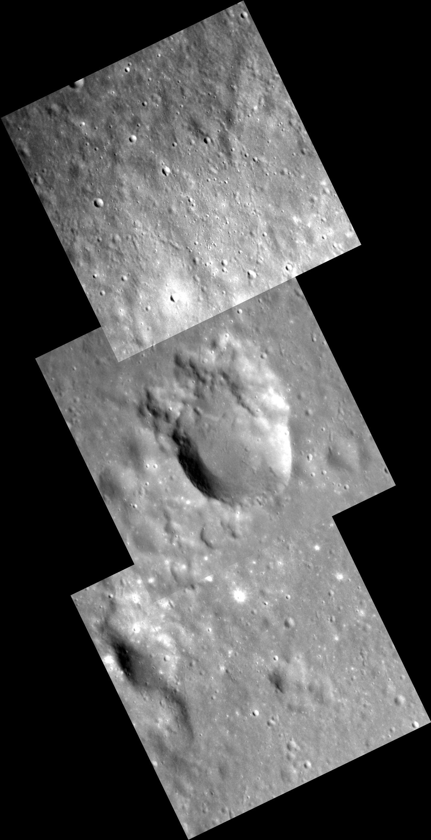 Irregular depression in the center of Mussorgskij crater on Mercury. MESSENGER Narrow Angle Camera mosaic (EN0244459484M, EN0244459490M, EN0244459496M). North is at top. Statistics below are from the center image. Emission Angle: 22.7 Incidence Angle: 56.0 Latitude: 33.0 Longitude: 262.5 Phase Angle: 33.2